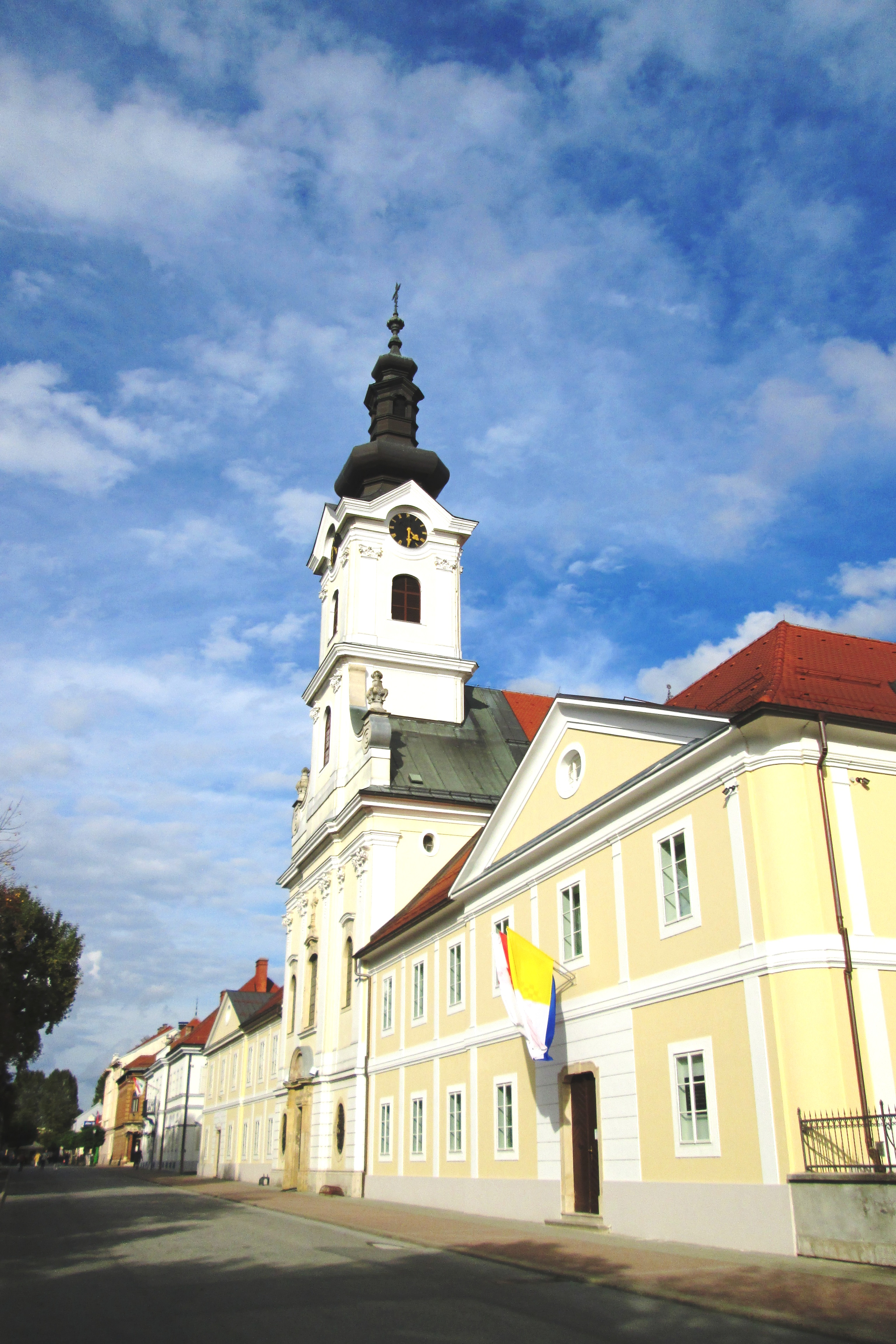 St. Therese of Avile Cathedral in Bjelovar, Croatia. This is a a photo of a cultural heritage in Croatia with ID:Z-2579